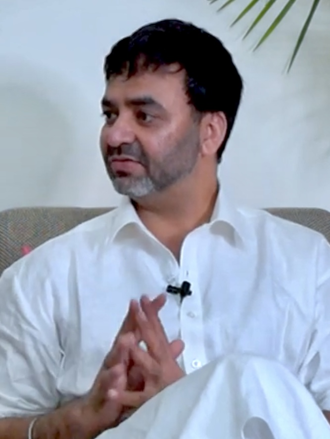 Karaj Gill in an interview with Amiran World in 2019.